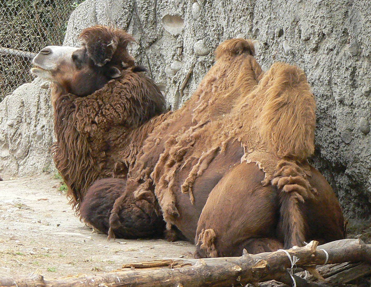 Camelus bactrianus in mexico city zoo